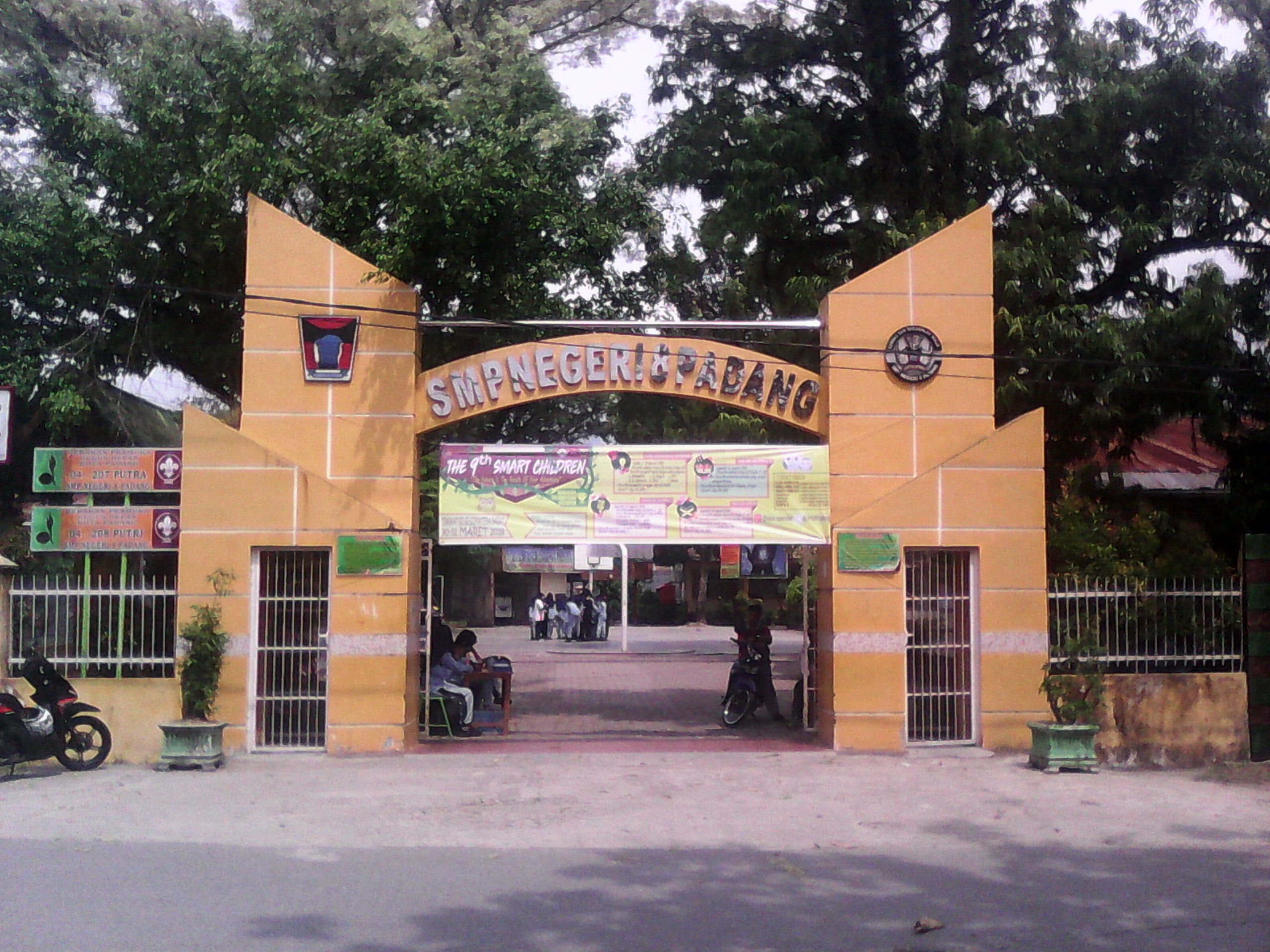 Gate of Padang State Junior High School 8 at dr. Sutomo street, Padang city.